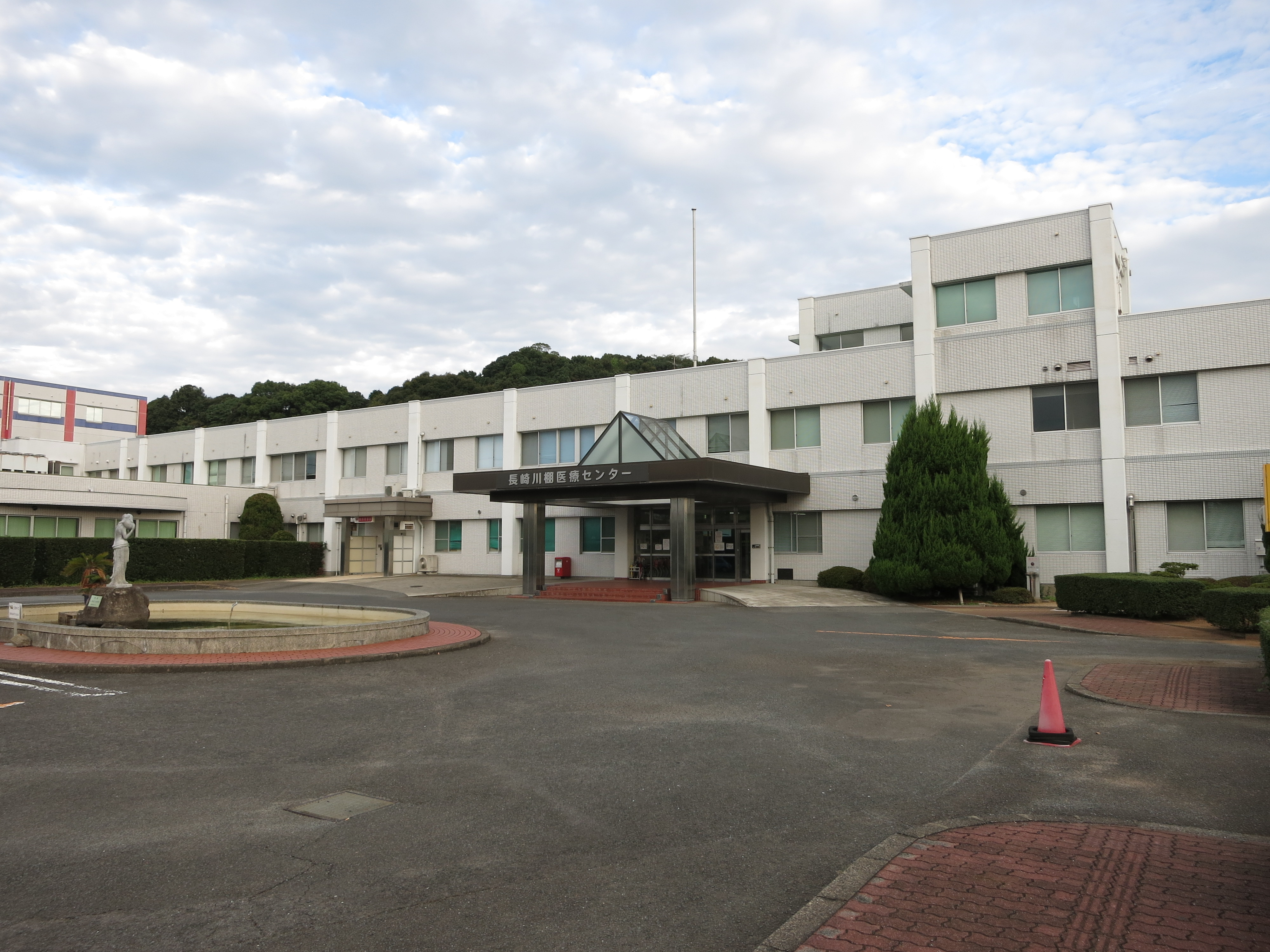 National Hospital Organization Nagasaki Kawatana Center